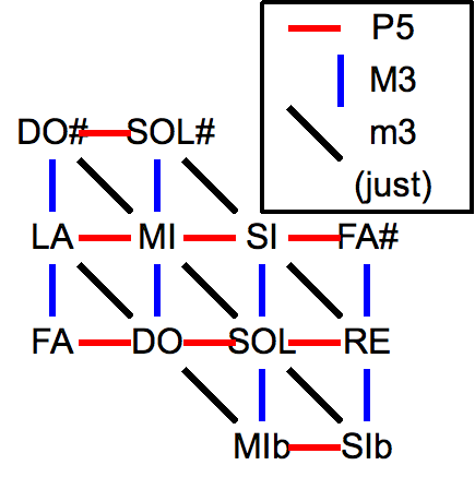 Translation of File:Juste intonation.PNG. In C: C#_G#_______ A__E__B__F#_ F__C__G__D__ ______Eb_Bb_